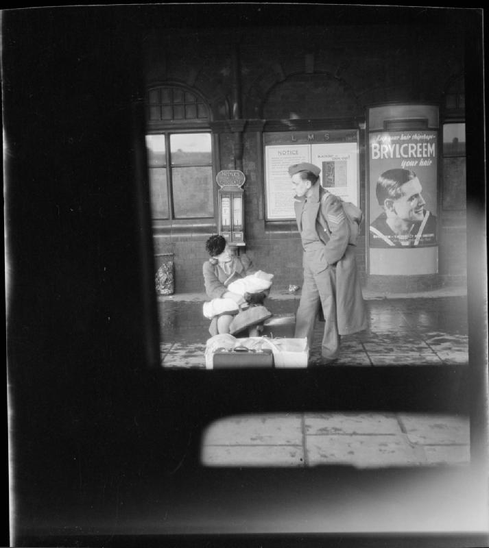 British Railways in Wartime - Leave Train- Transport Between London and Scotland, UK, 1944 A British Army Sergeant waits beside a mother and baby on a station platform, somewhere between London and Scotland. Behind them, a Nestle chocolate machine can be seen, providing snacks for the journey (chocolate is 1d per tablet) and to the right of the photograph, a large poster encourages men to "Keep your hair shipshape - Brylcreem your hair".